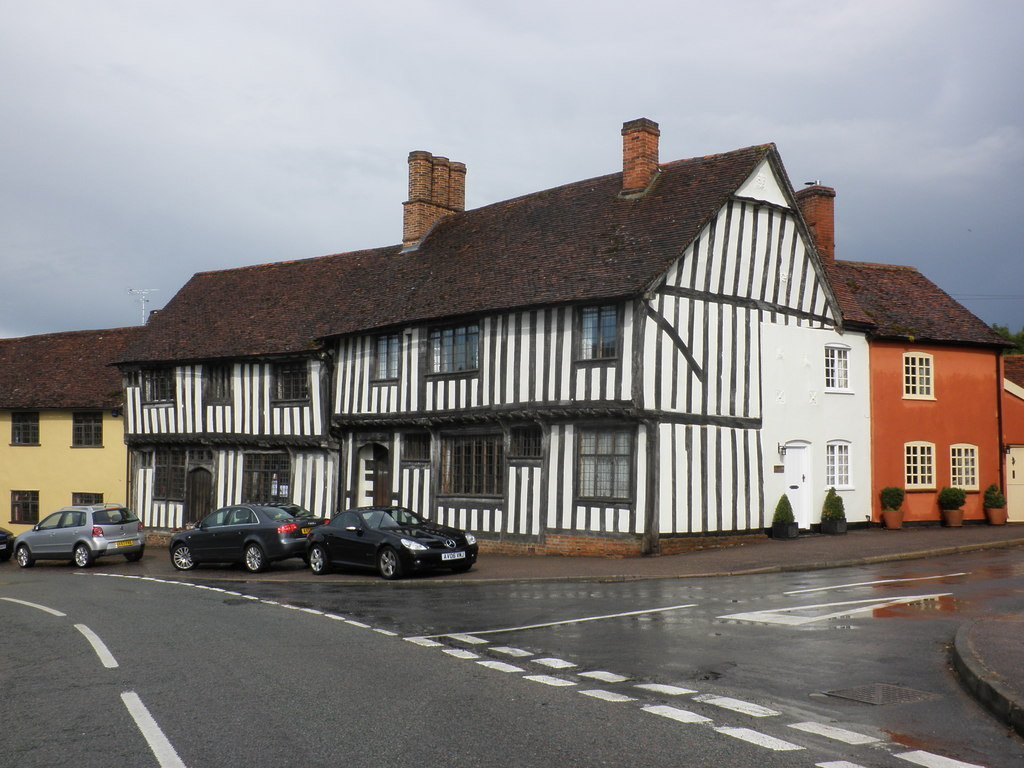 Timber-framed houses on Church Street, Lavenham